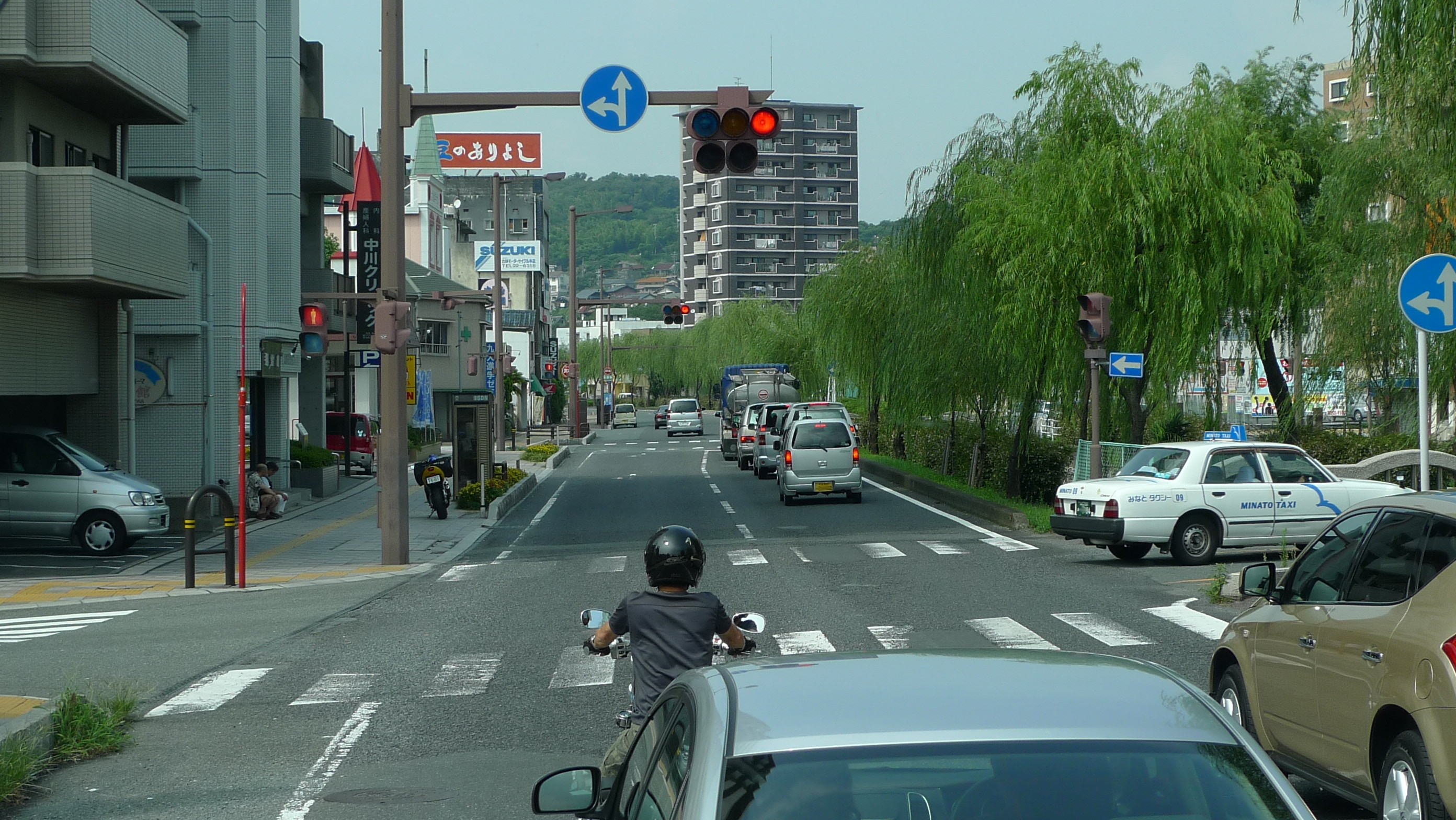 Yamaguchi prefectural road route 57/248. (Aug. 2009)